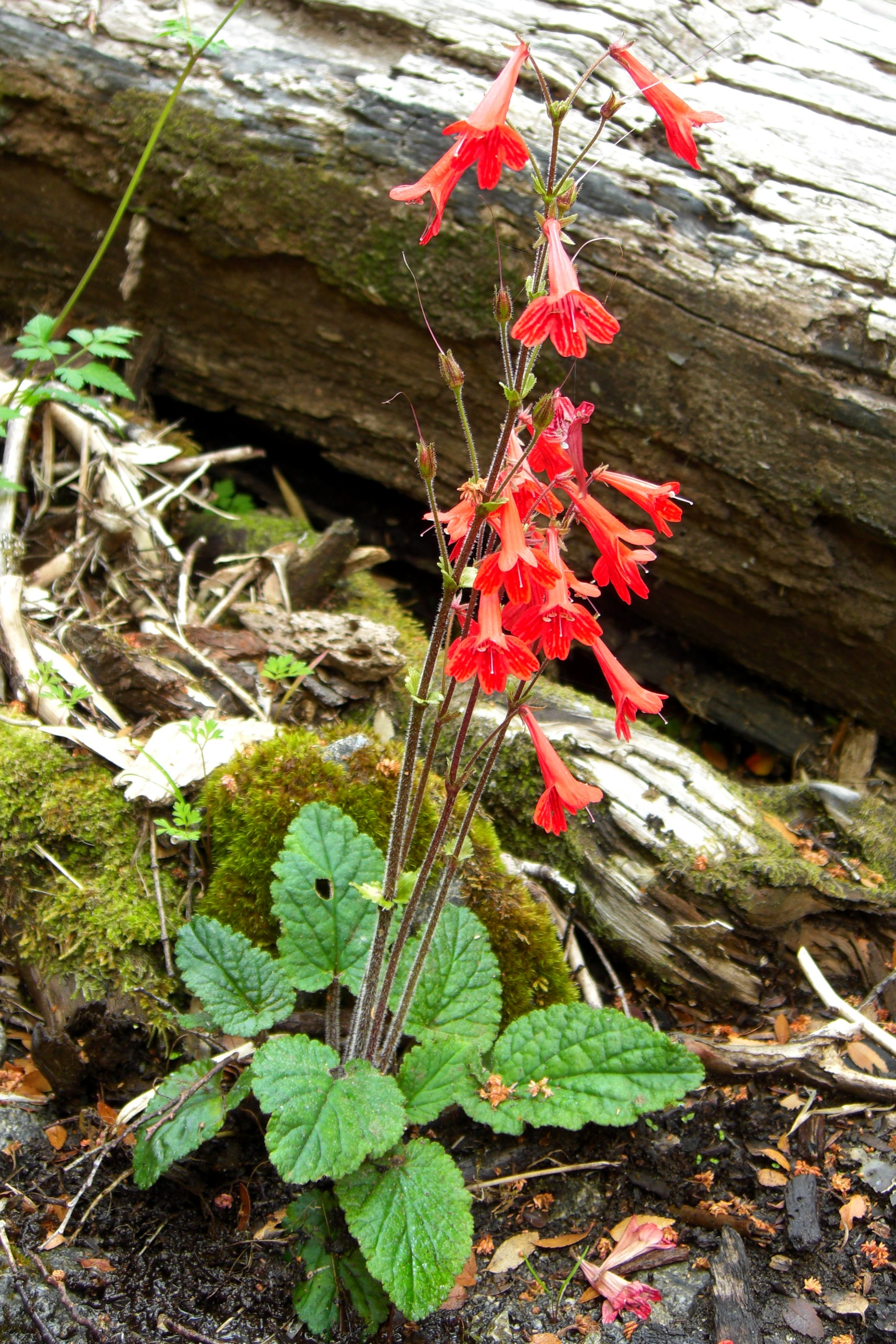 Ourisia coccinea Pers. 20081209.1 Parque Nacional Huerquehue, Chile Many people have identified (misidentified?) this flower as O. ruelloides, but I think they're wrong because the calyx is made of 5 equal, nearly-free divisions.